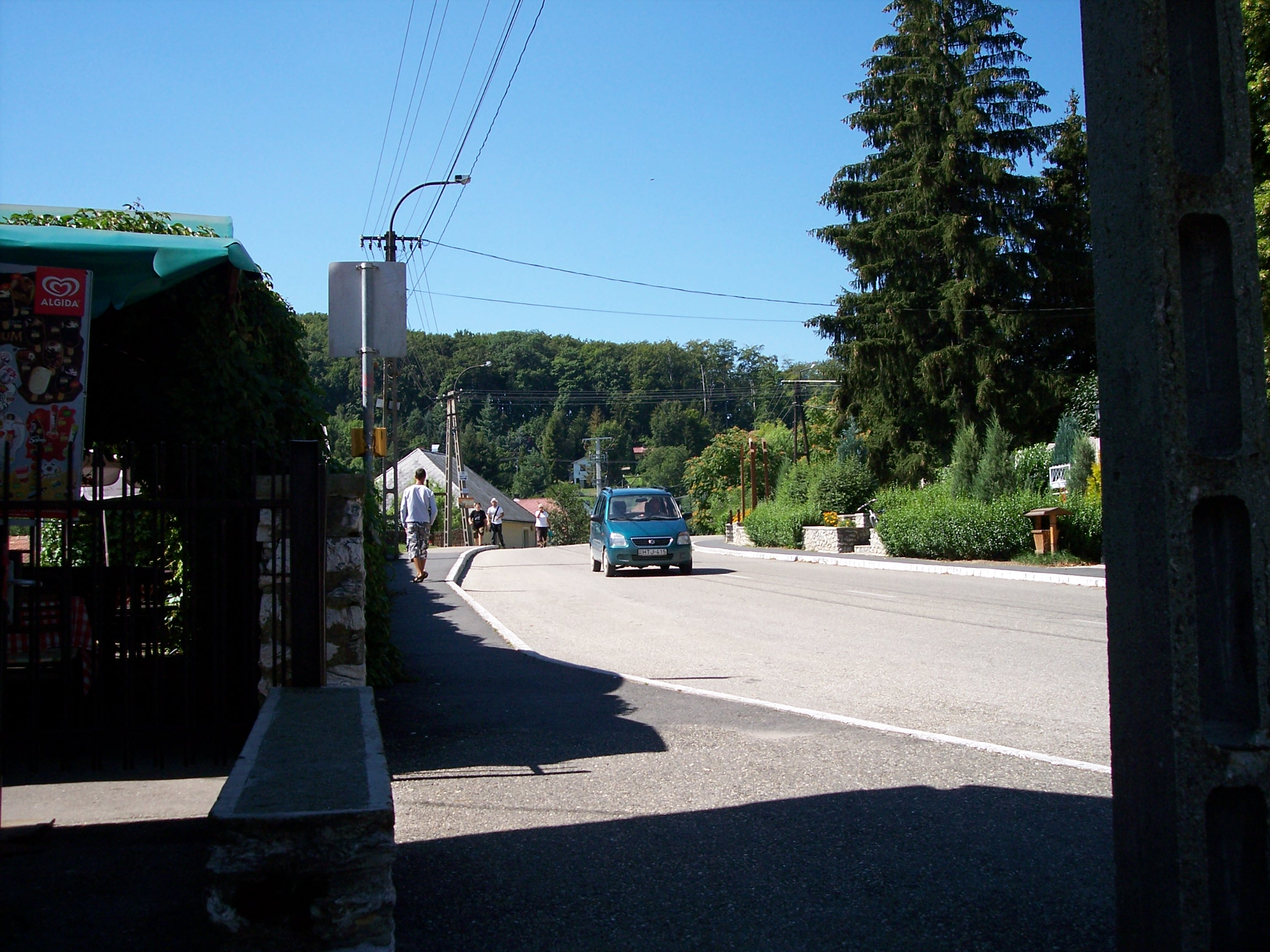 Bükkszentkereszt, Hungary